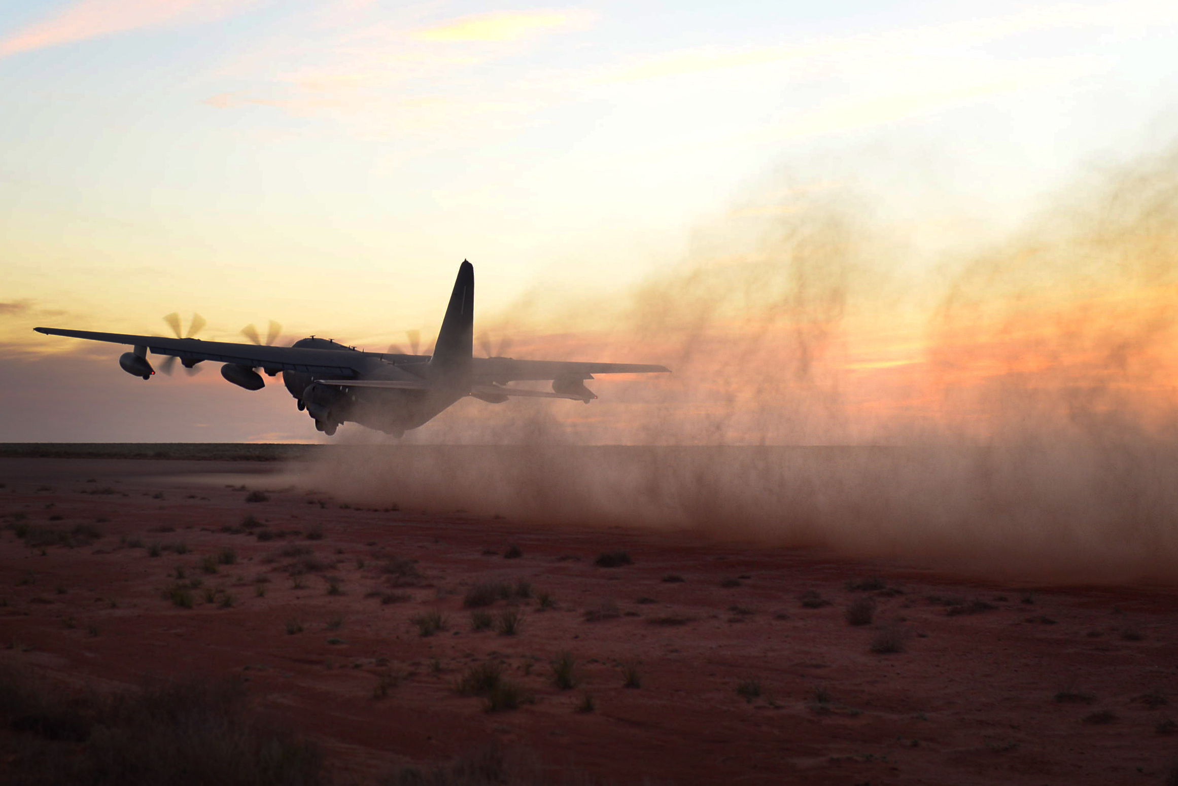 Leaving a trail of dust in its wake, an MC-130J Commando II takes off April 2, 2015, at Melrose Air Force Range, N.M. The aircraftÕs crew demonstrated its capability to take off, land and perform airdrops in remote areas during a joint exercise. (U.S. Air Force photo/Airman 1st Class Shelby Kay-Fantozzi)